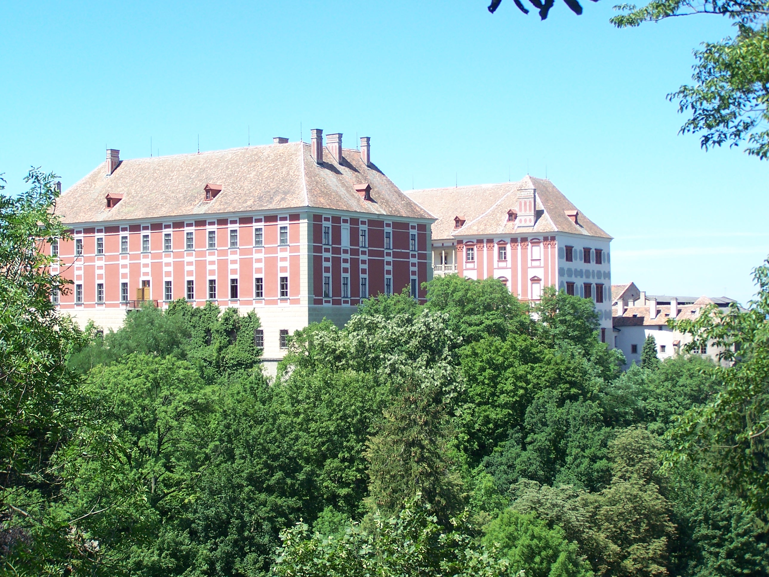 Opočno_castle_01